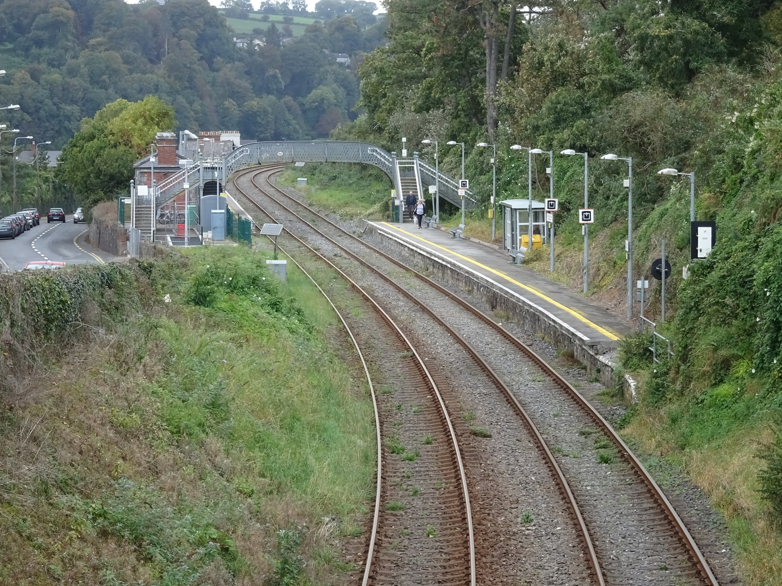 Rushbrooke railway station, County Cork Opened in 1862 by the Cork & Youghal Railway, later part of the Great Southern & Western Railway, on the line from Cork to Queenstown, now called Cobh. View north west towards Carrigaloe and Cork.